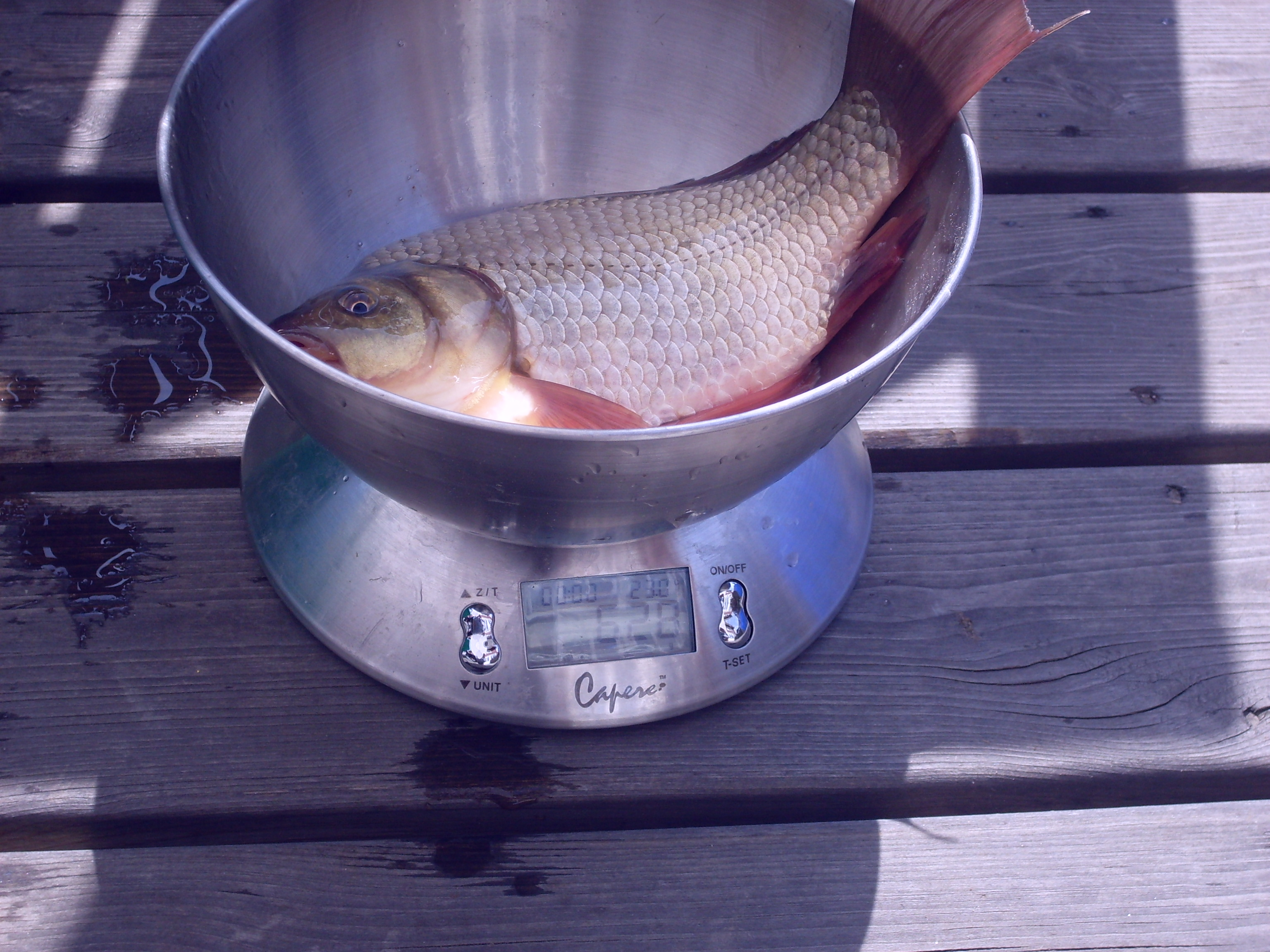 carassius carassius glibelio